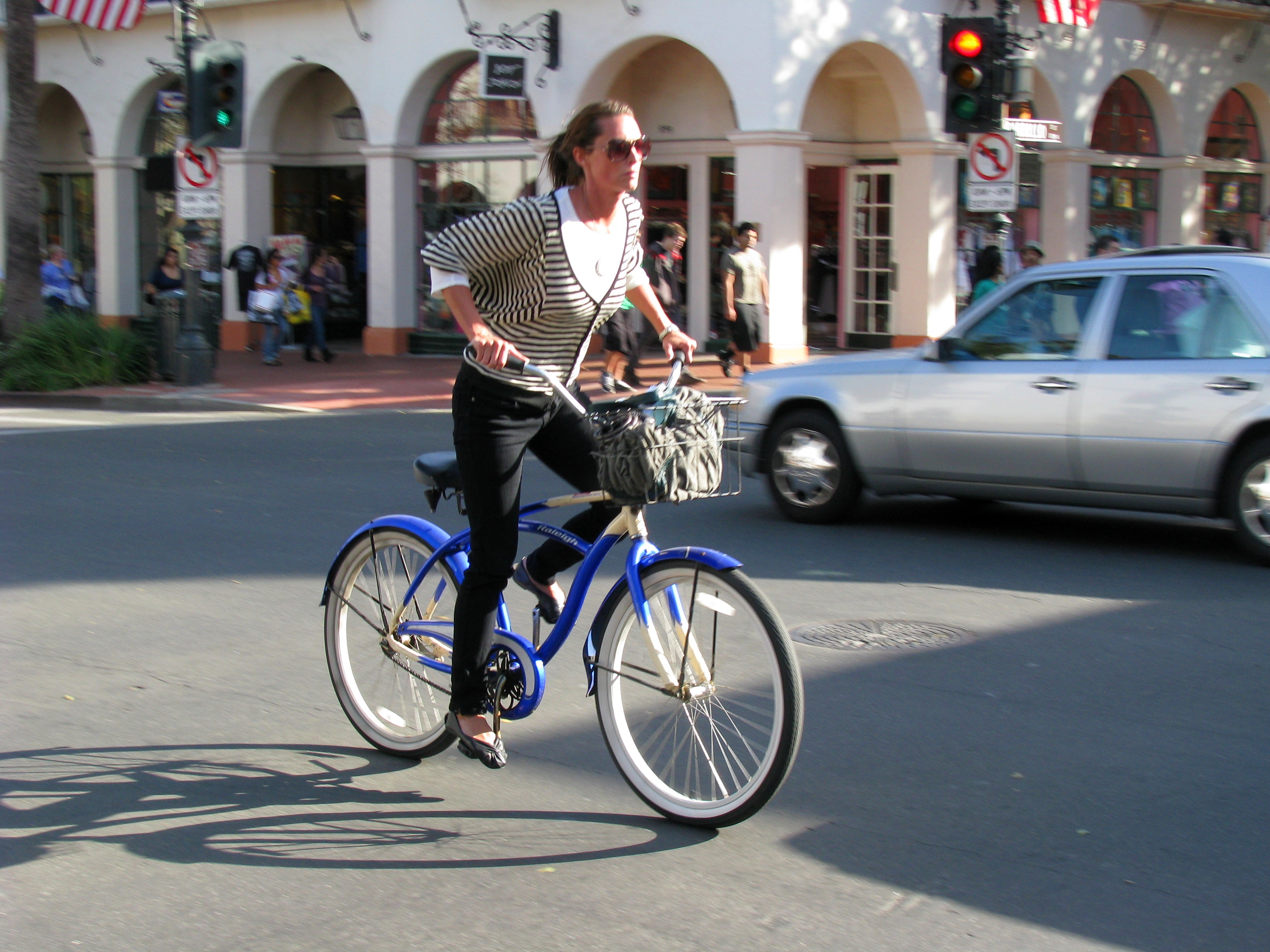 California Beach Cruisers chic #6